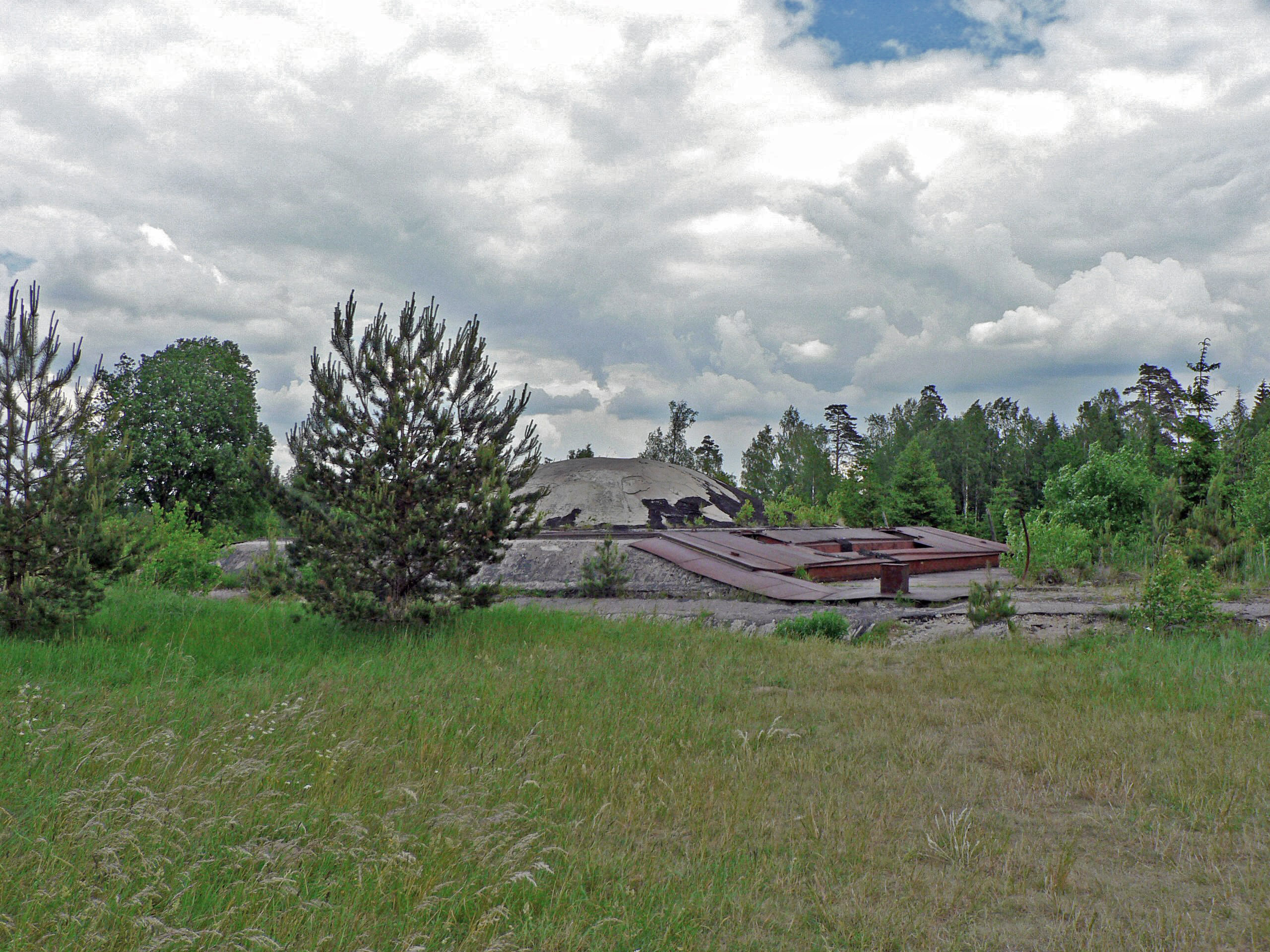 The cupola of an underground R-12U nuclear missile silo in Plokštinė forest base, Lithuania. The cover could slide away on the rails or just blow off before a missile launch. Author: Wojsyl, 2006